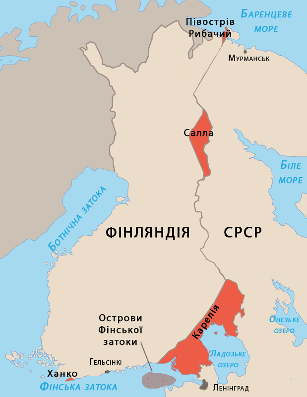 Map of the areas ceded by Finland to the Soviet Union after the Winter War 1940.